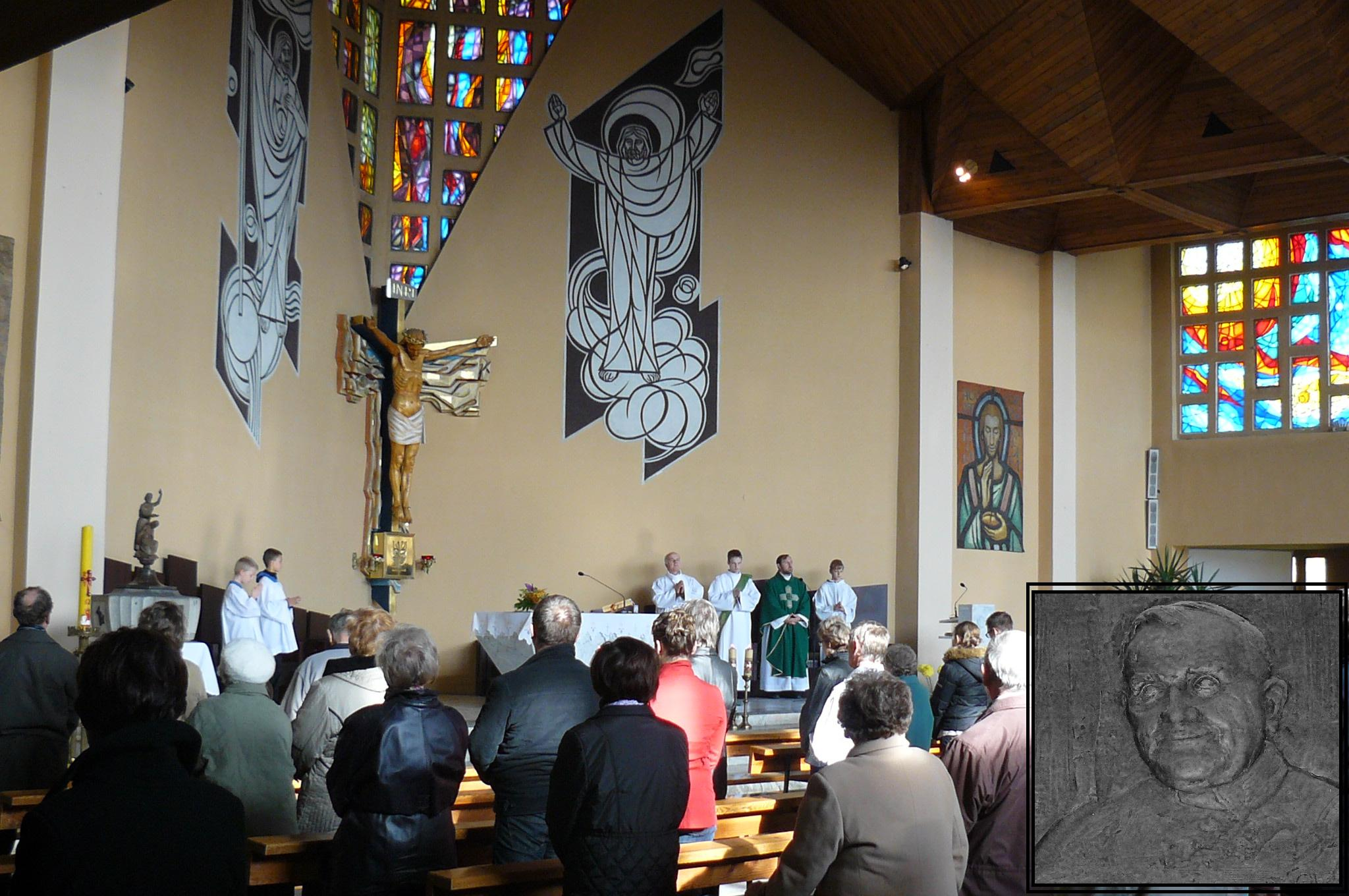 Poznan, Church - Warszawskie District.